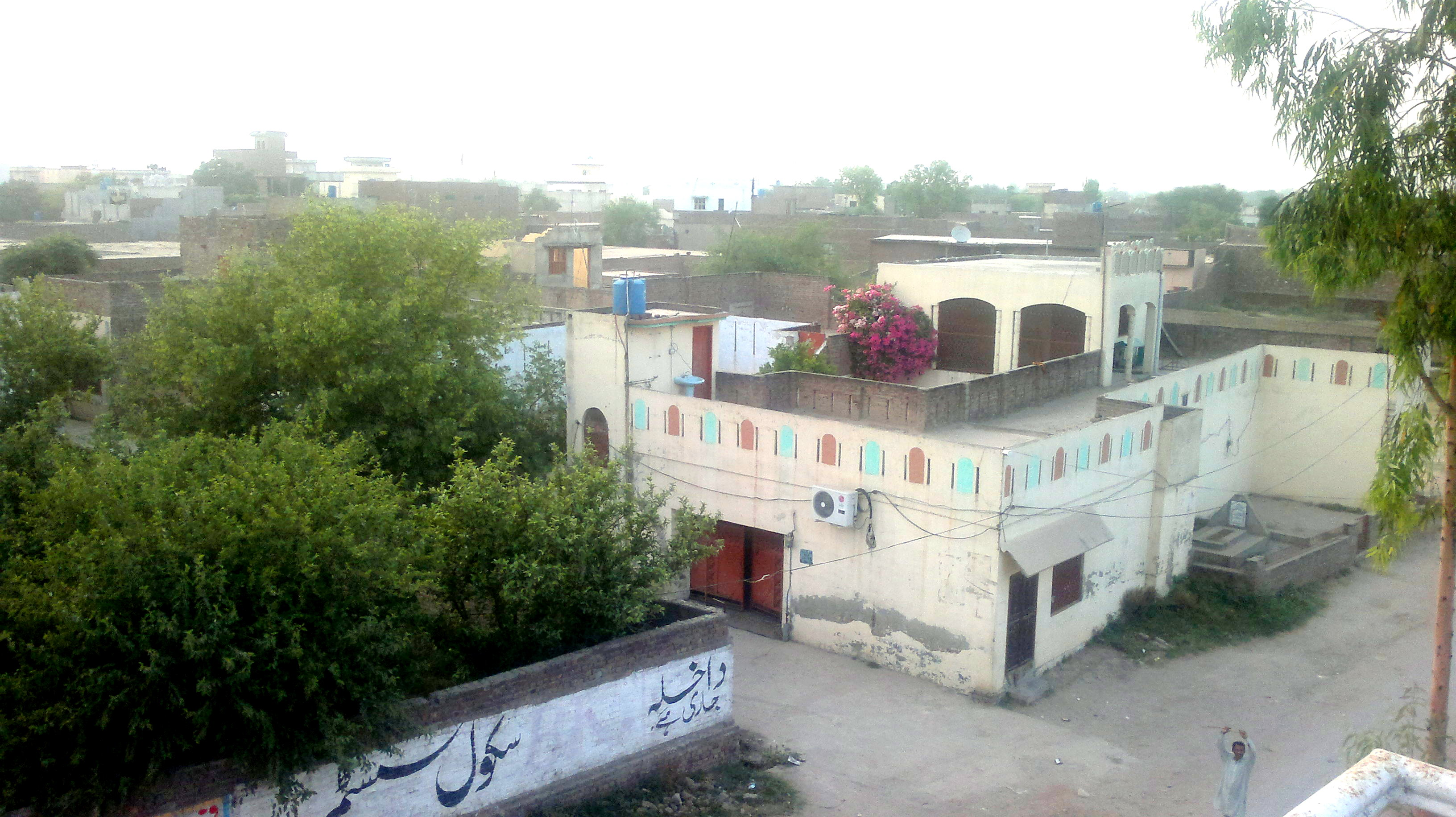 Chakrian